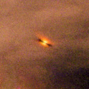 One of 42 new proplyds discovered in the Orion Nebula, 473-245 is one of the dark proplyds that lies relatively far from the nebula’s brightest star, Theta¹ Orionis C.